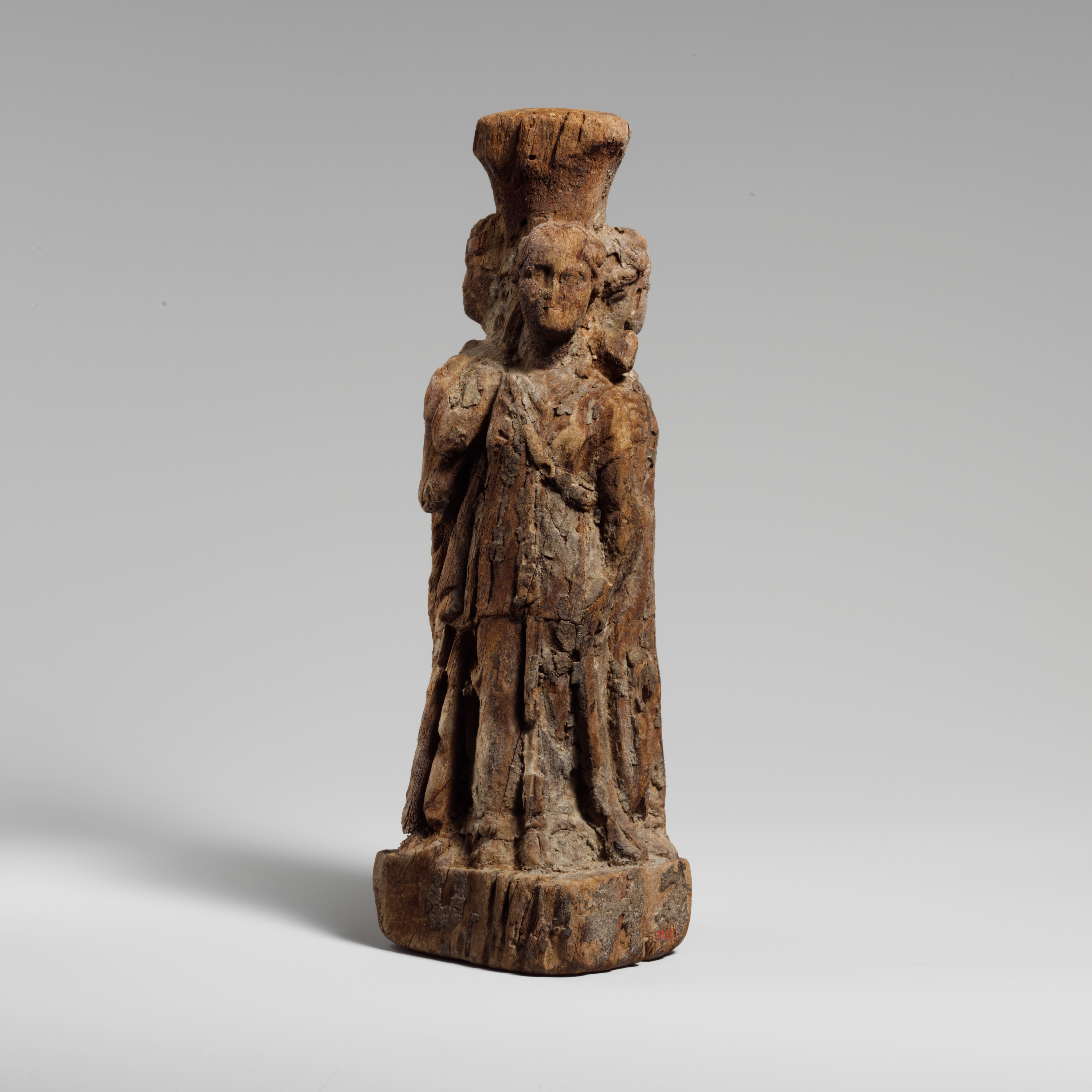 Egyptian, Ptolemaic; Statuette of Hekate; Miscellaneous-Wood